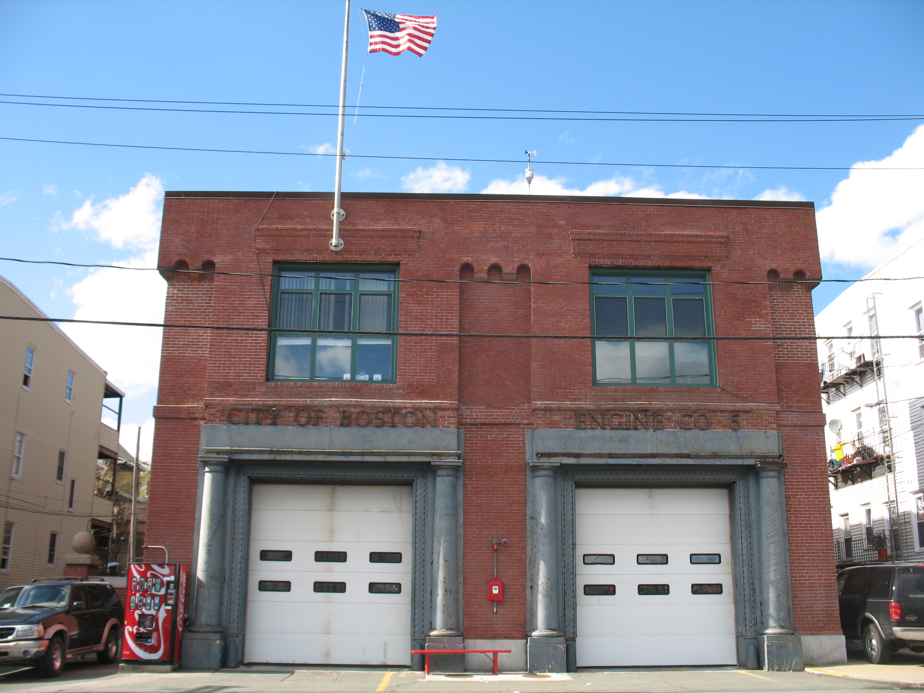 Boston Fire Department, Engine 5 Firehouse (District 1 Chief) --- 360 Saratoga Street, East Boston 02128